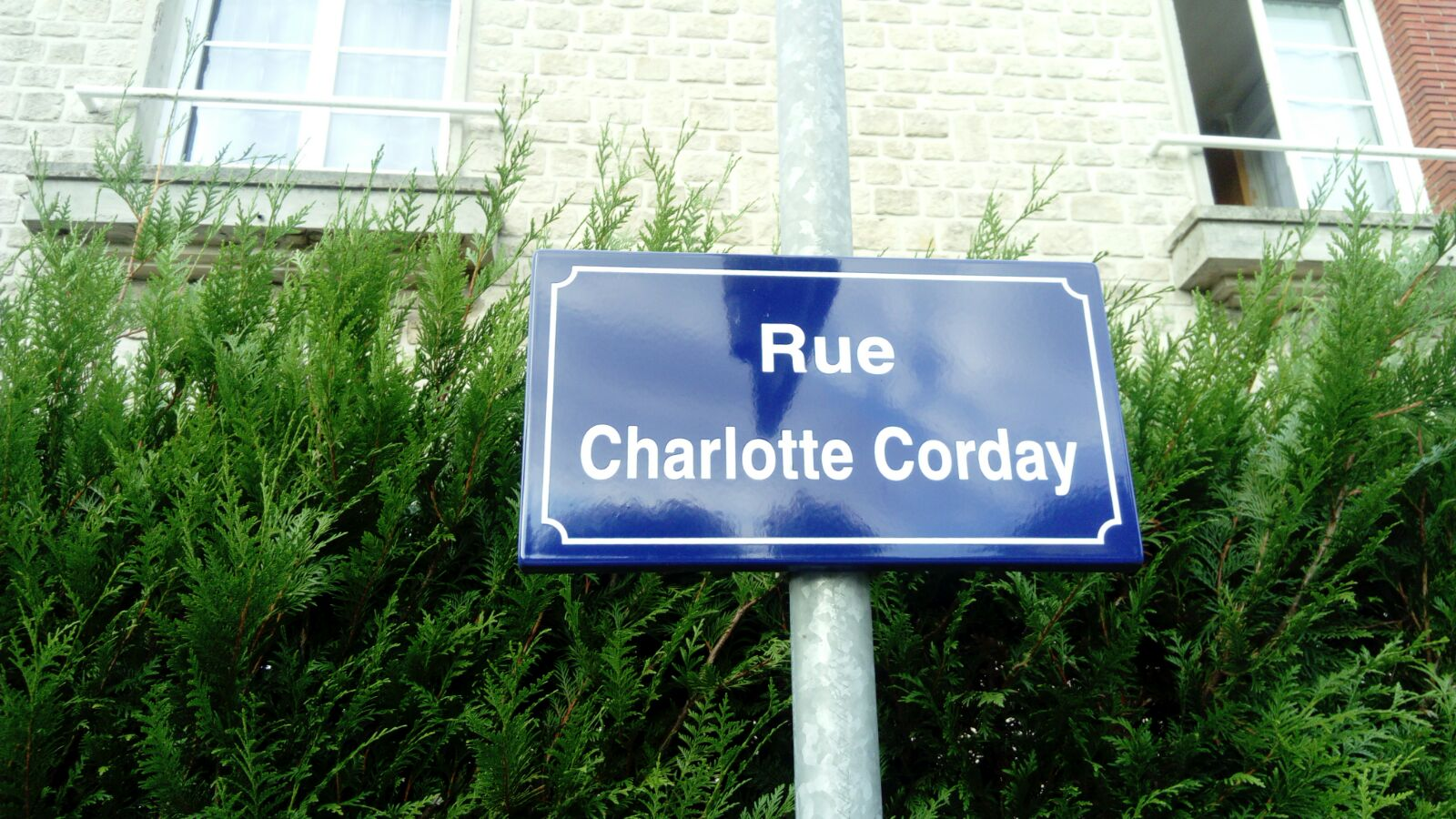 Plaque of the street named after Charlotte Corday in the Norman town of Argentan in France.